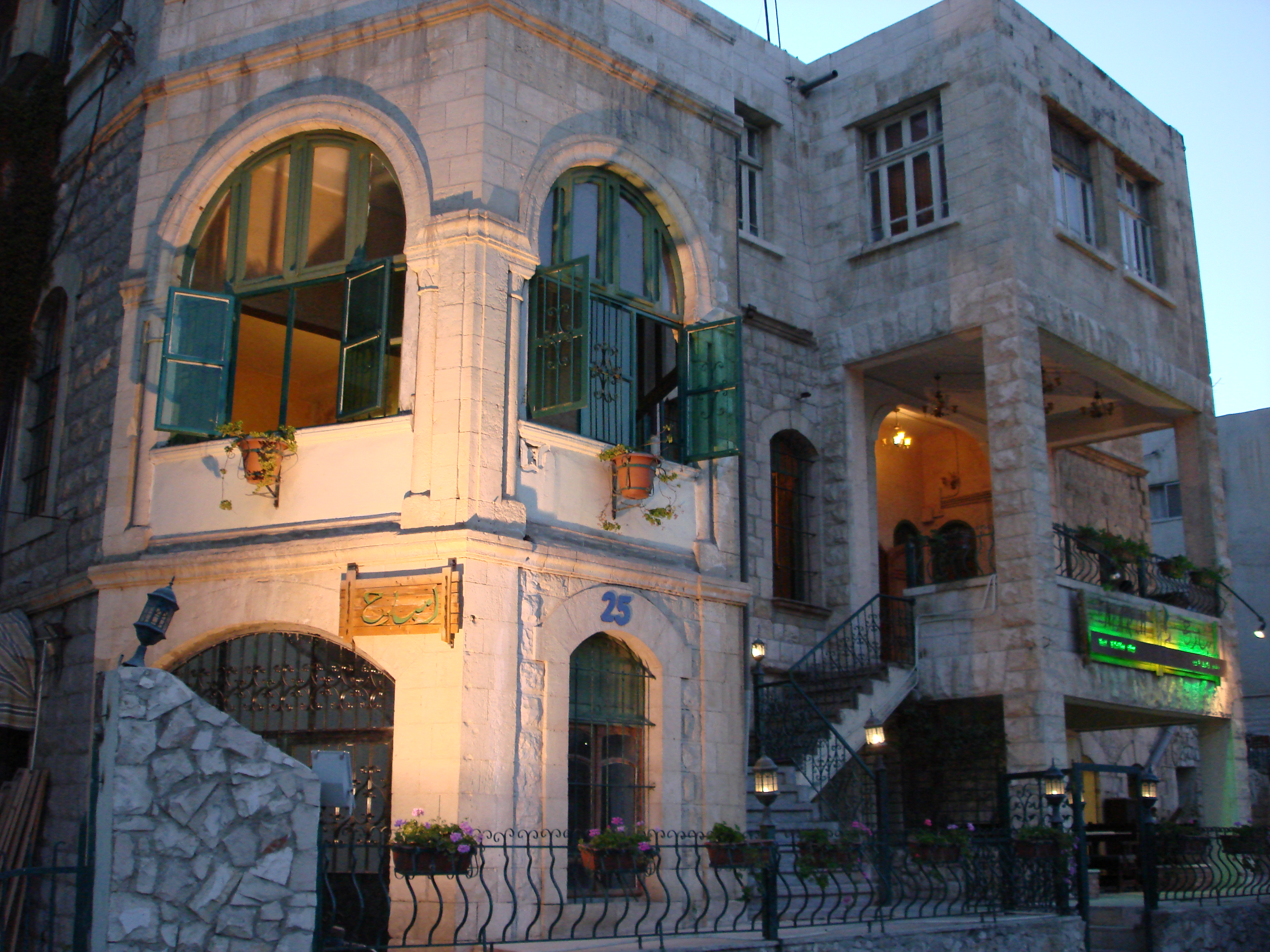 A Cafe in Jabel Weibdeh called "Mbareh" , showing the architectural language of the Region.